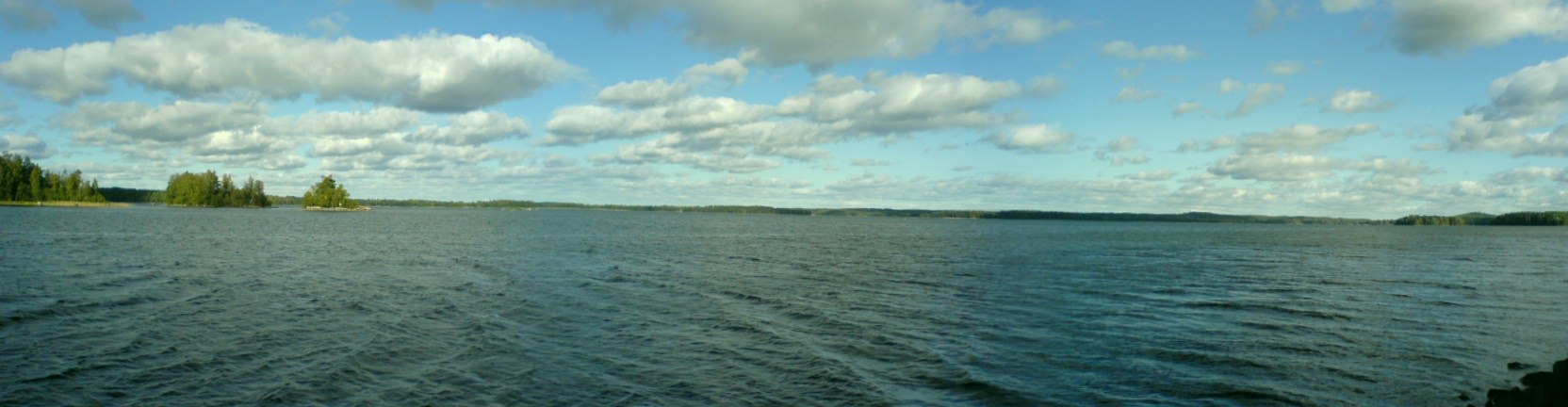 Picture of lake Iso-Roine, Hauho, Finland